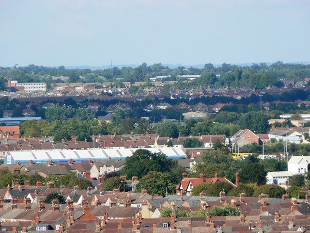 View north from Christ Church belfry, Cricklade Street, Swindon (2). This telephoto image was taken on a day when the church 331493 was holding a fete in the grounds and the belfry was open. The white building in the left centre was Wickes DIY store at SU158855. Wickes have recently opened a new store on another site north of this location and this one is now vacant. The building below the left skyline is Kingsdown School at SU168881. The pylon on the horizon is probably at SU167888.